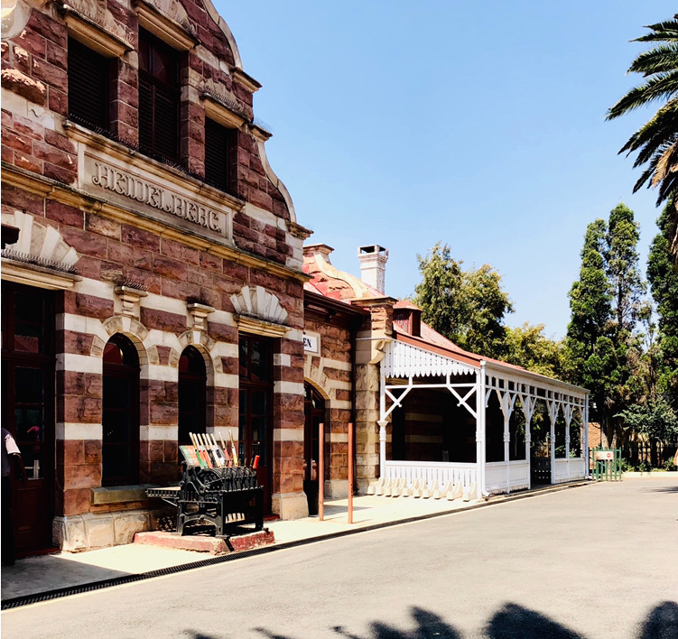 Formally the station, now a museum for locomotives in Heidleberg taken at Suzans 100th birthday journey. This is an image with the theme "Africa on the Move or Transport" from: South Africa